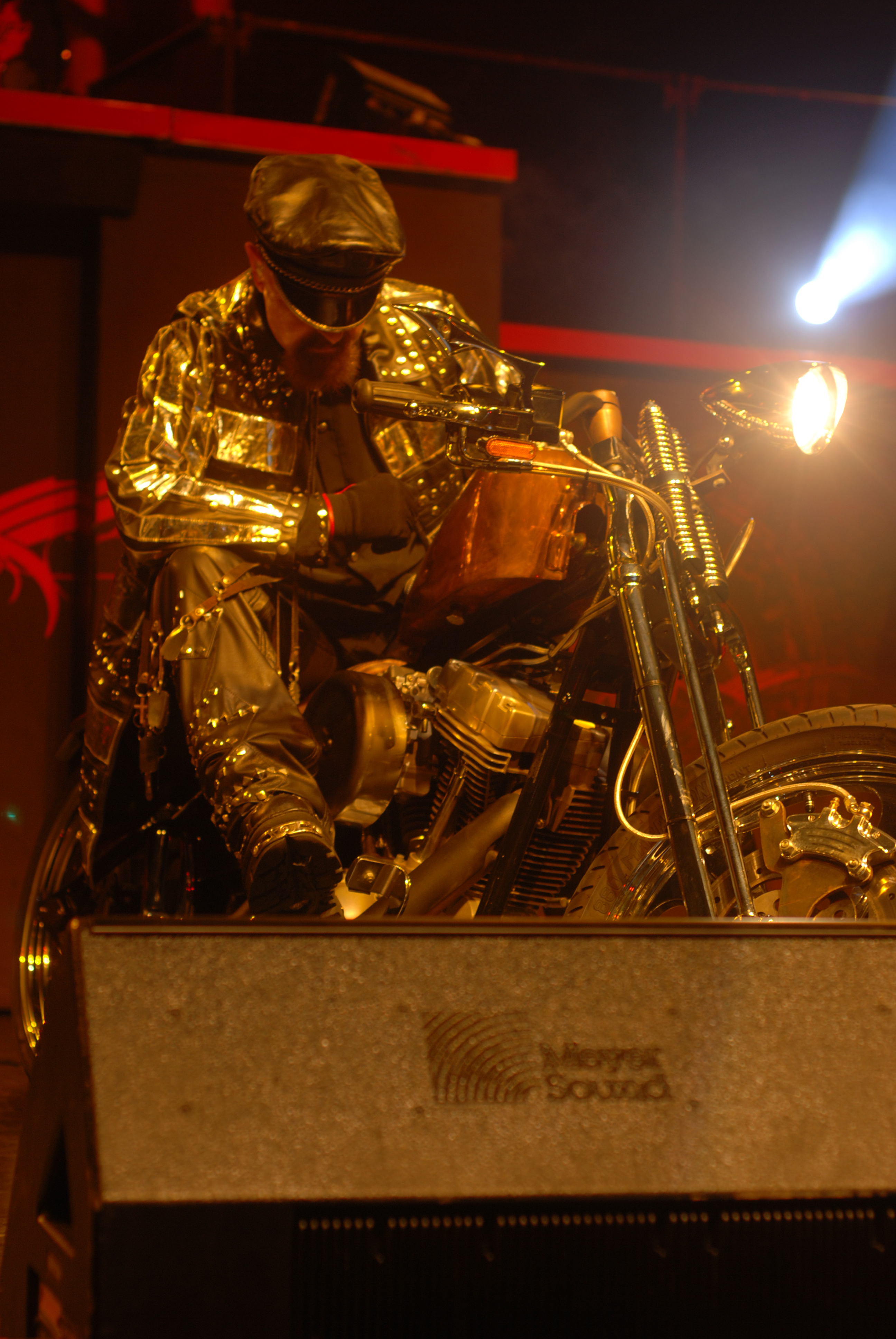 Rob Halford during a Judas Priest's concert